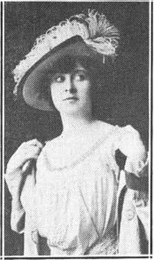 Agnes Woodward, from a 1918 publication.